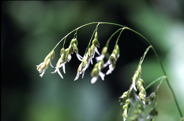 Hierochloe occidentalis at Humboldt Bay National Wildlife Refuge Complex, California, USA